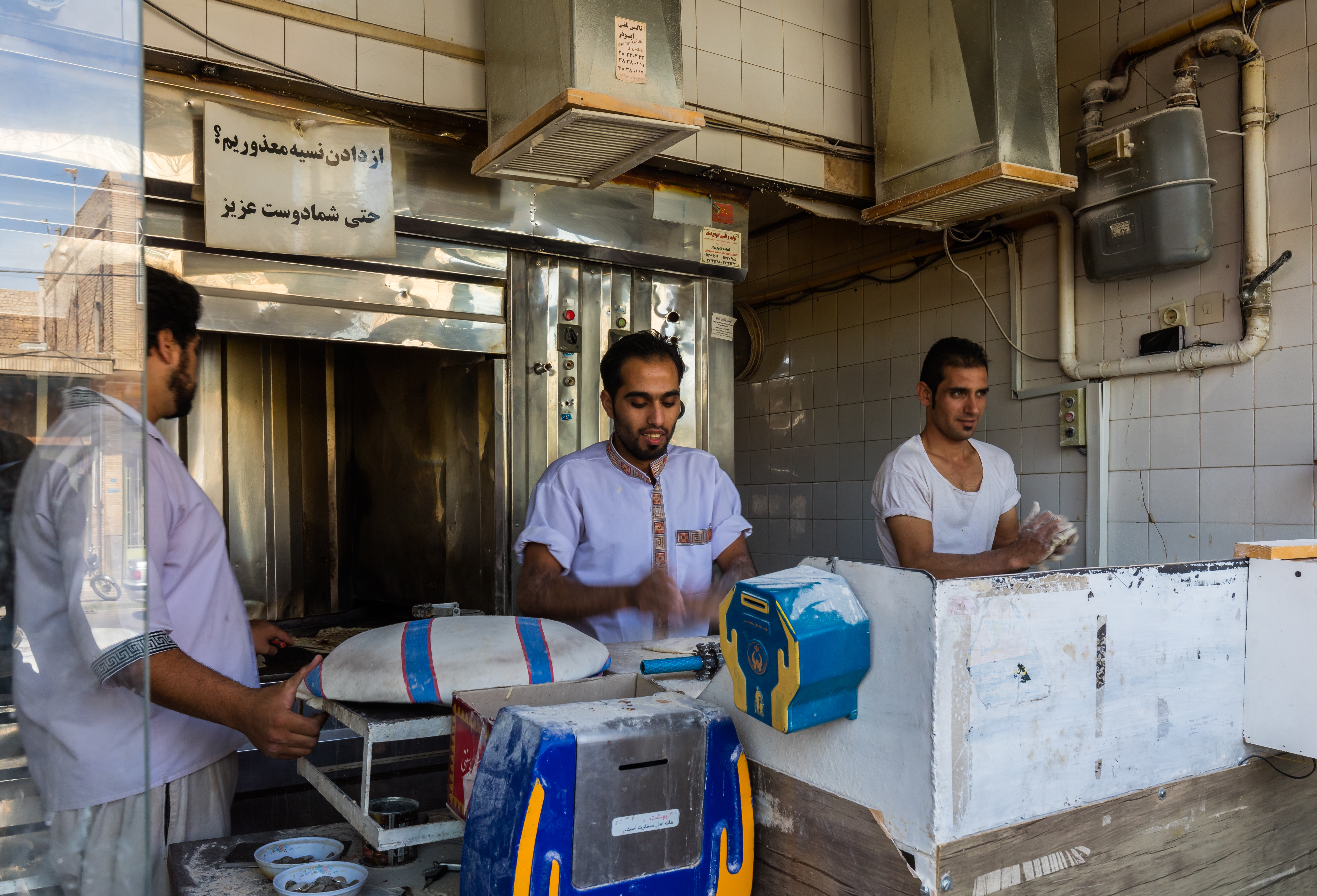 Bakery in Yazd, Iran